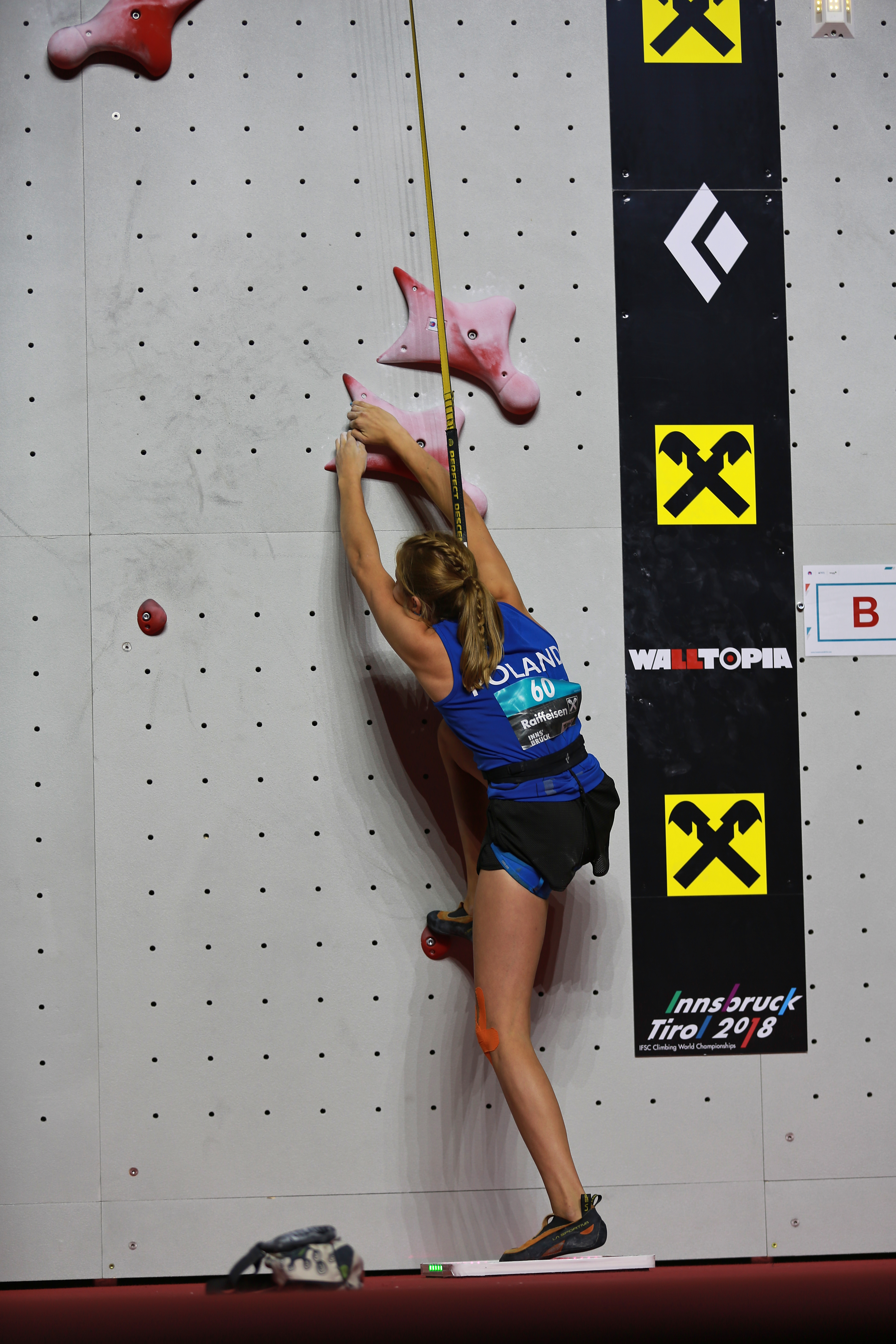 Climbing World Championships 2018 Speed Eighth-finals